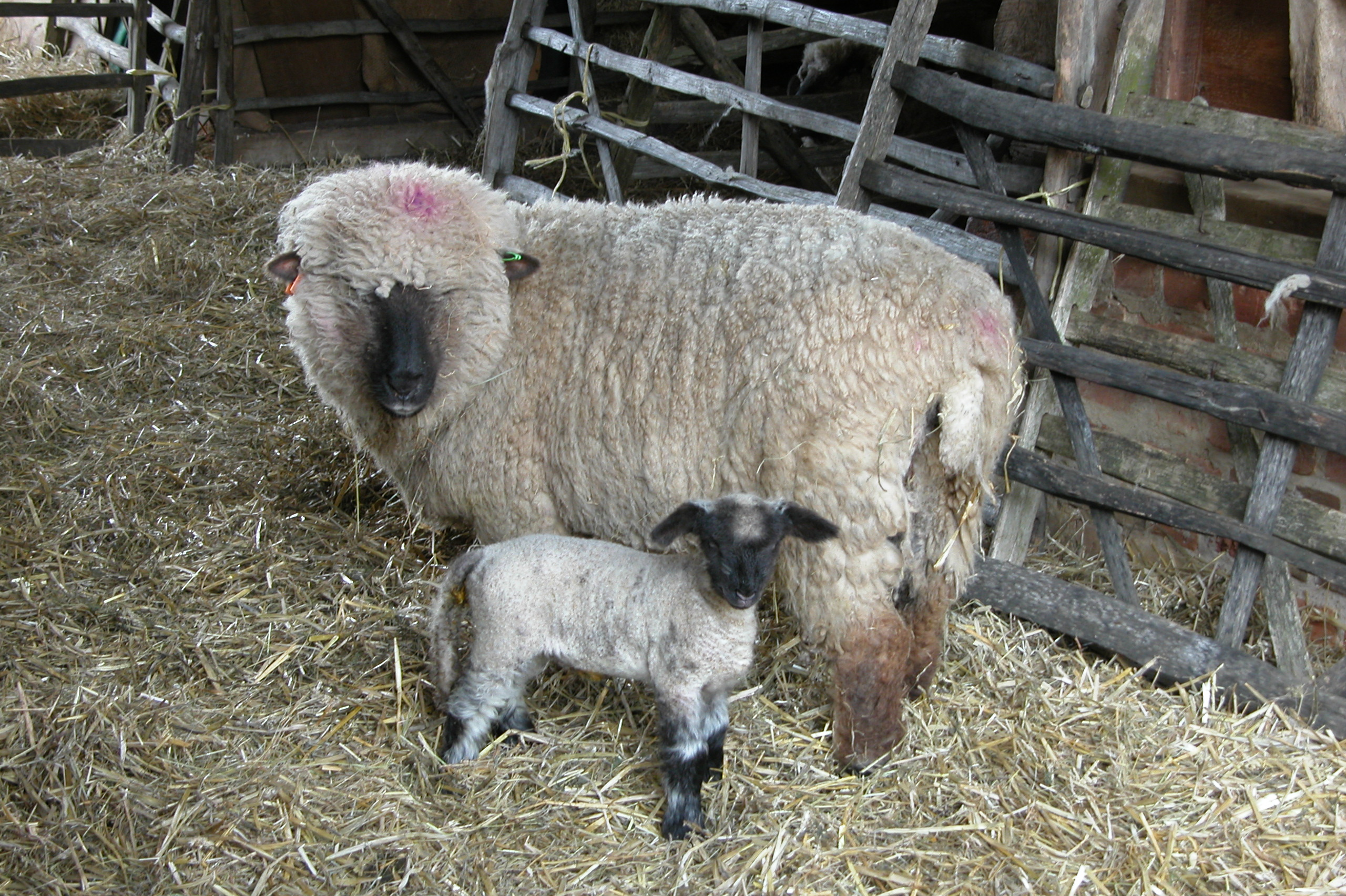 Oxford Sheel at Chiltern Open Air Museum